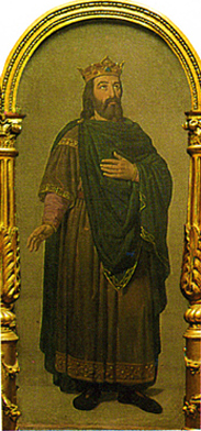 Fortun Garces of Navarre